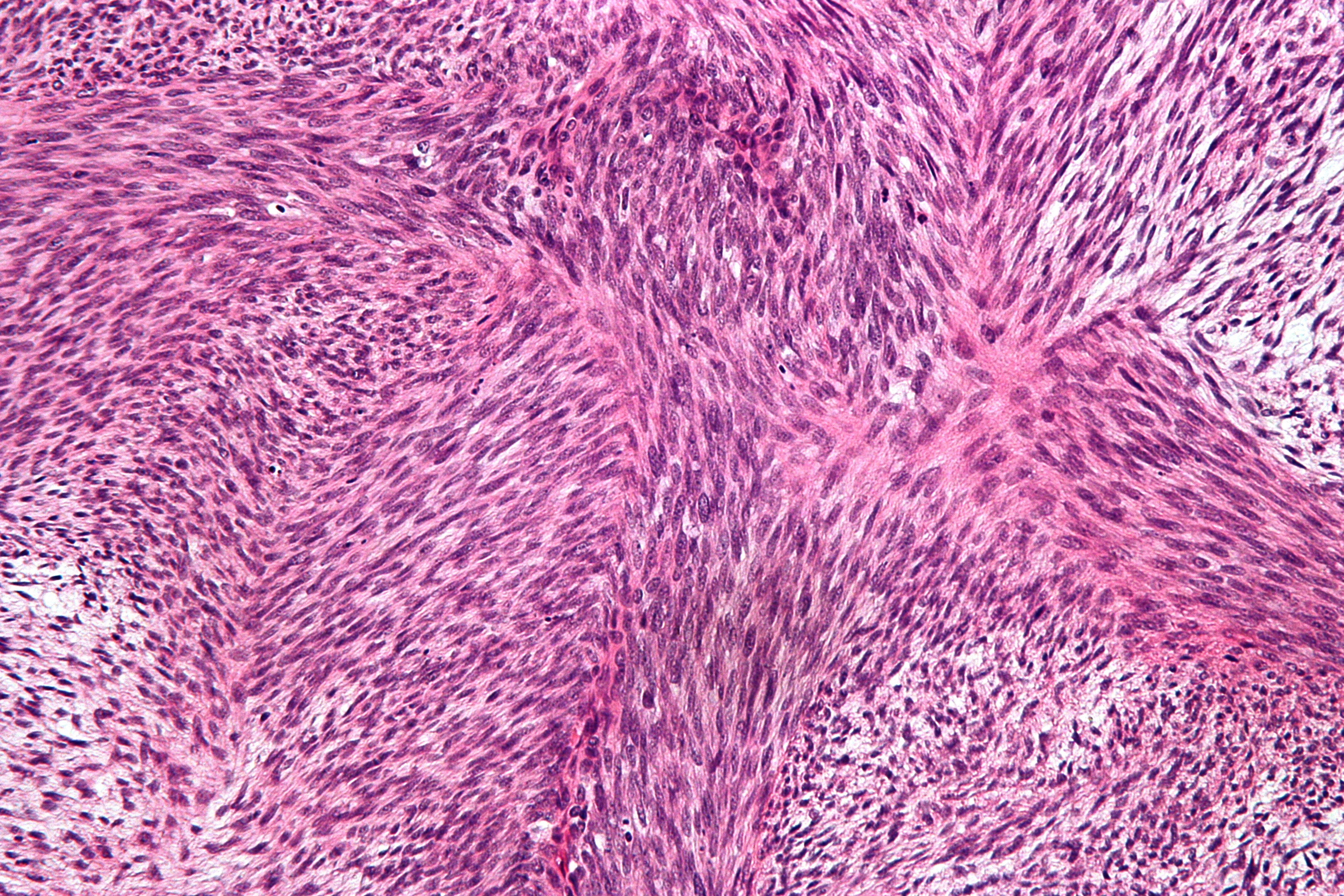 High magnification micrograph of the herringbone pattern in a malignant peripheral nerve sheath tumour, abbreviated MPNST. MPNST is a diagnosis of exclusion. It has a histomorphologic appearance that is similar to synovial sarcoma and fibrosarcoma. Related images Intermed. mag. High mag. Very high mag.